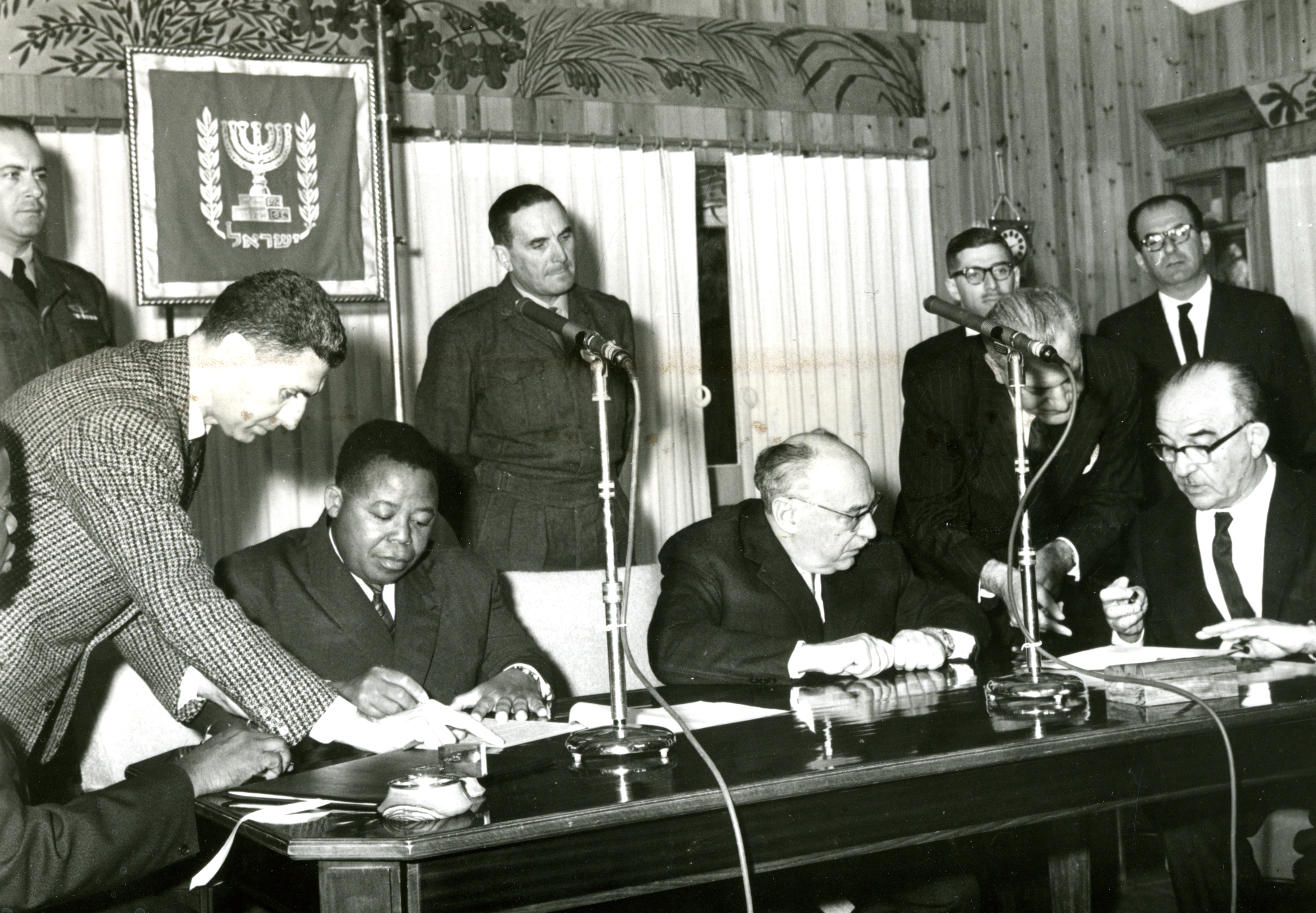 Prime Minister Levi Eshkol and President Zalman Shazar signed a friendship agreement with Belgian Congo President Joseph Kasa-Vubu